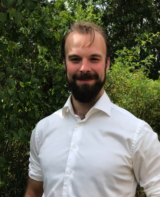 Christan Axelsson, a Swedish writer (2019).